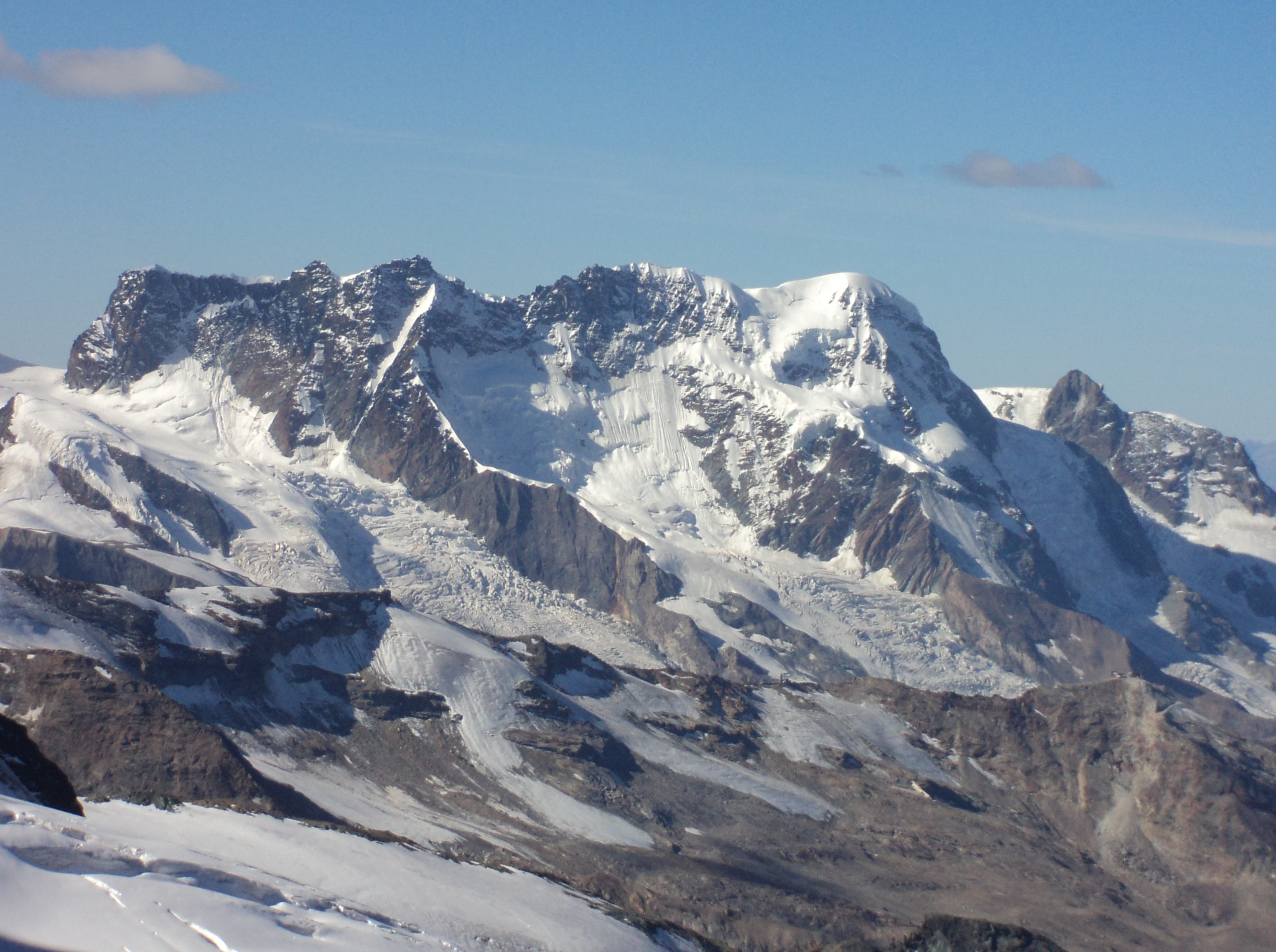 Breithorn (nord face) from Allalinhorn - Monte Rosa massif